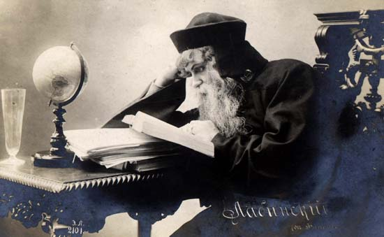 Photo of russian opera singer Andrey Labinskiy (1871-1941) as Faust